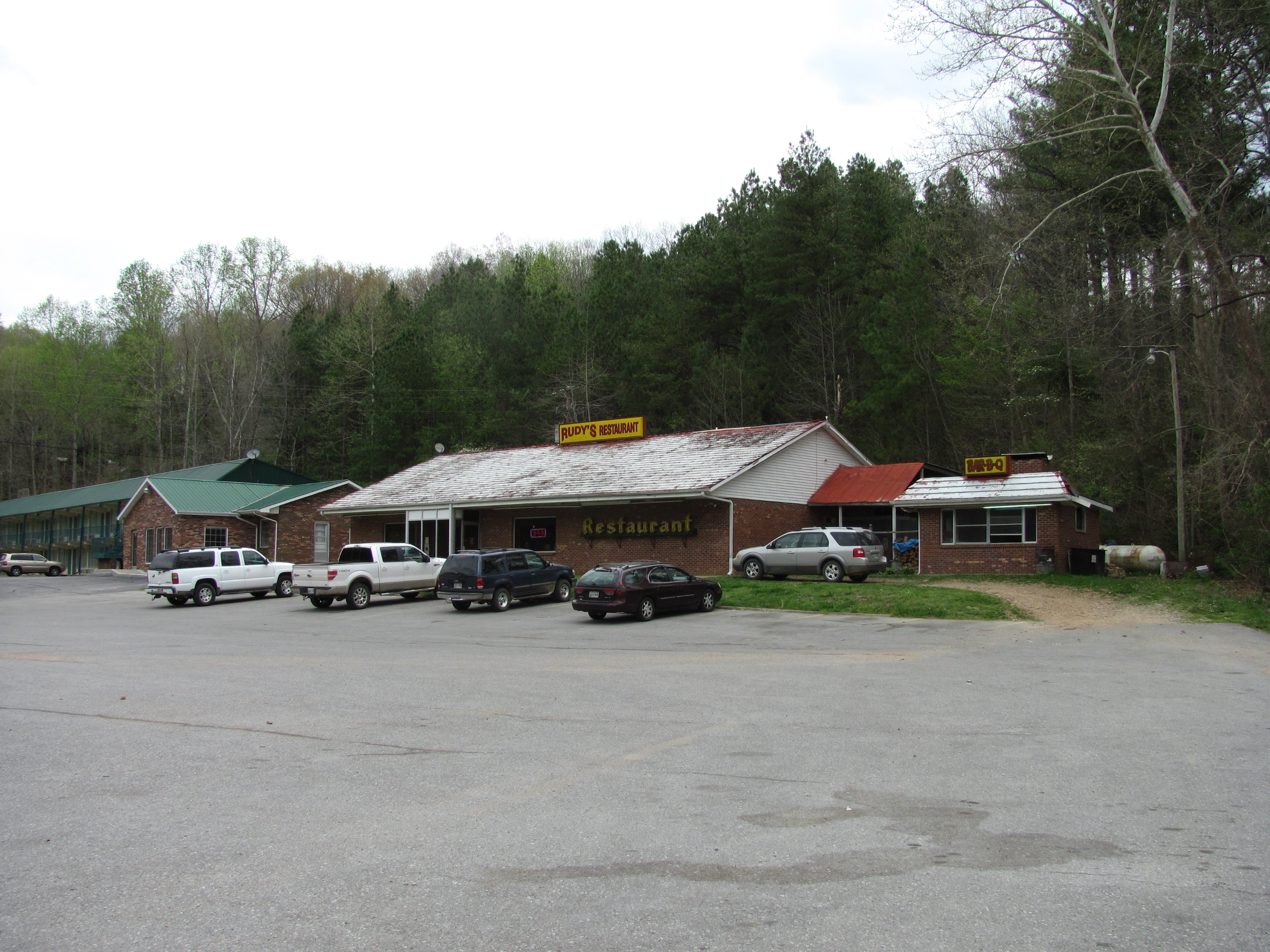 Rudy's Restaurant, Bucksnort Tennessee